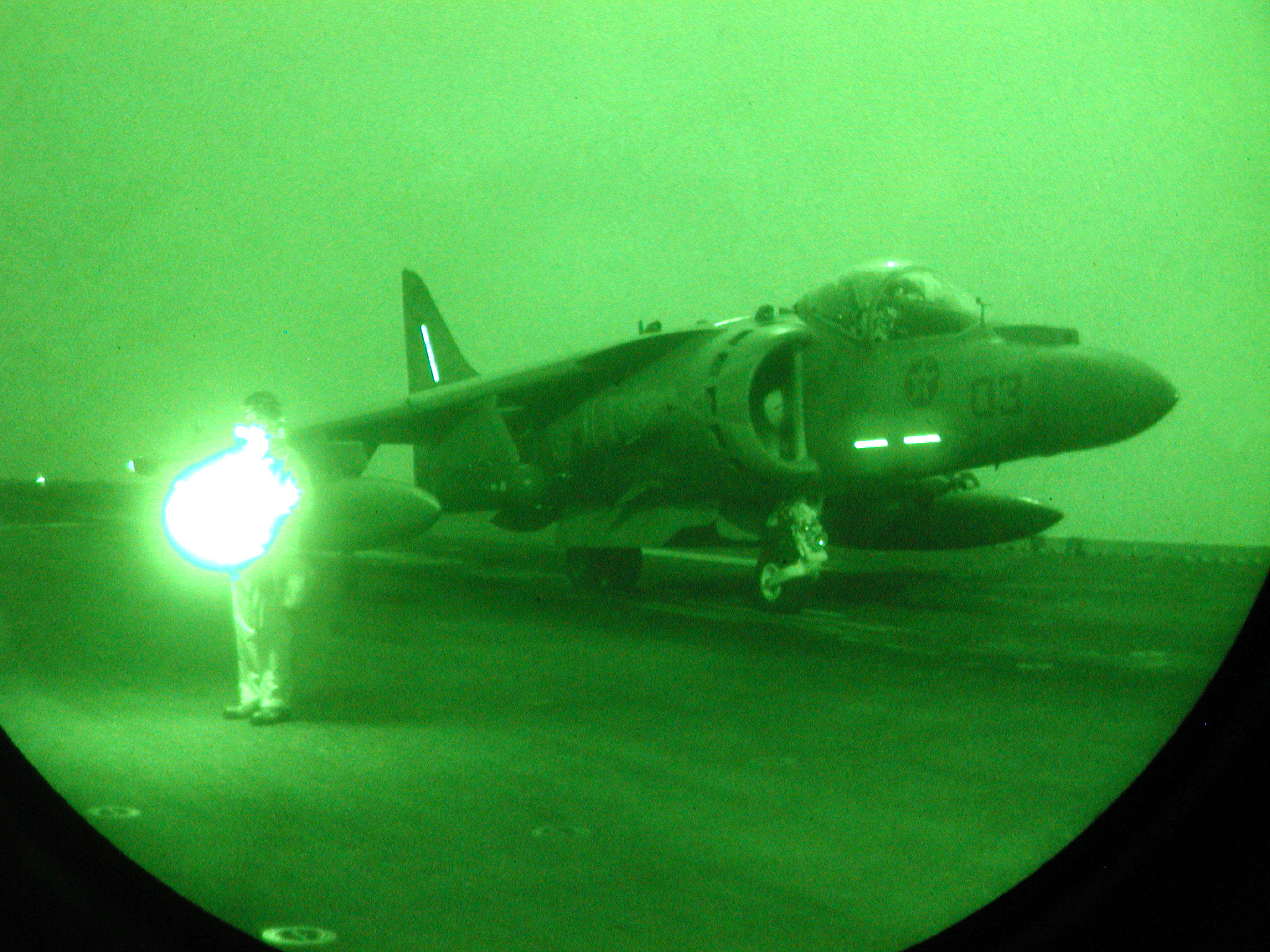 Arabian Gulf (Mar. 21, 2003) -- A Marine AV-8B Harrier prepares to launch from the amphibious assault ship USS Bonhomme Richard (LHD 6) to support Marine ground combat operations in southern Iraq. Bonhomme Richard and her embarked Harriers are in the Central Command Area of Responsibility conducting combat operations in support of Operation Iraqi Freedom. U.S. Navy photo by Chief Journalist Jon E. McMillan. (RELEASED)